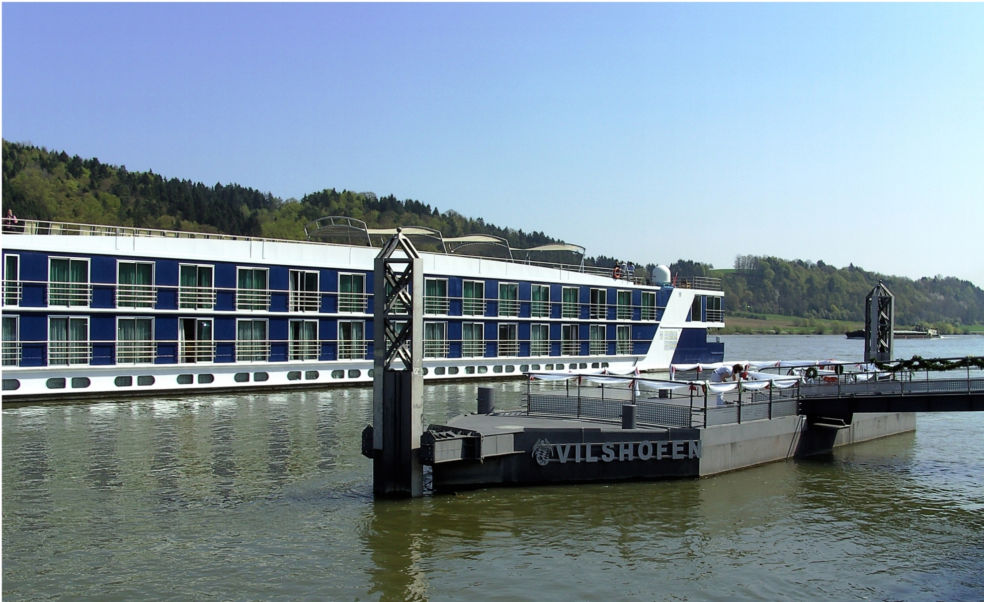 A River-Cruise ship at the Gangways in Vilshofen a.d. Donau, Bavaria, Germany.